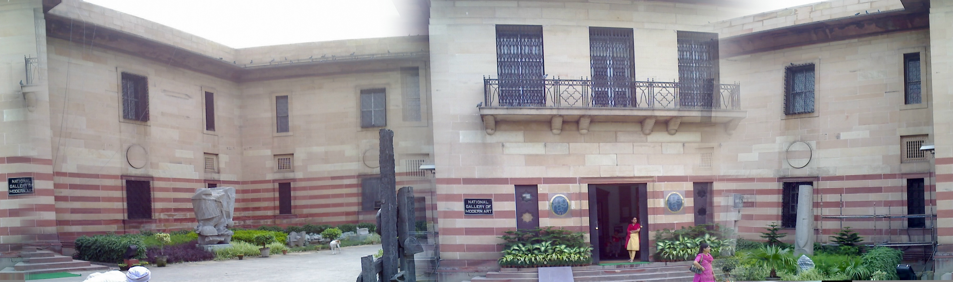 National Gallery of Modern Arts, New Delhi